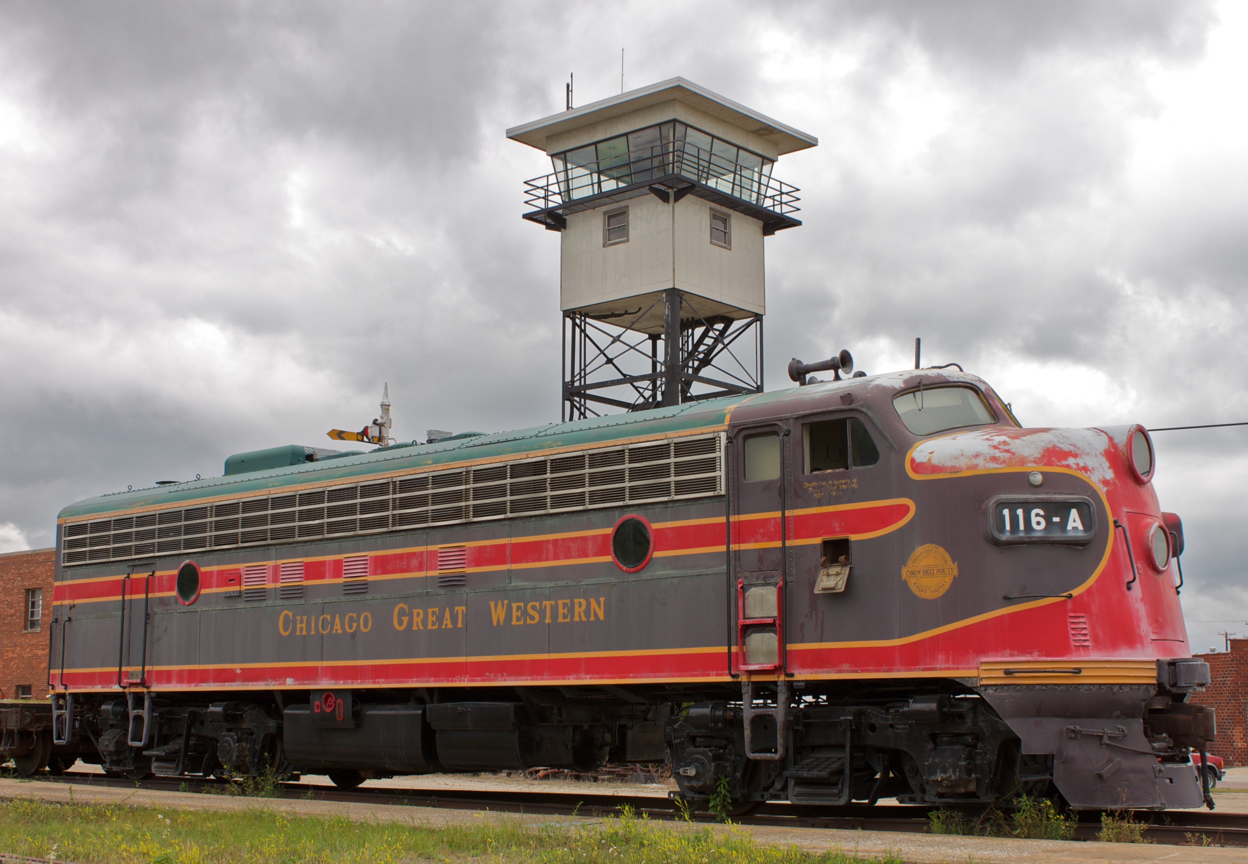 Rail museum and yards in Oelwein IA featuring the Chicago Great Western